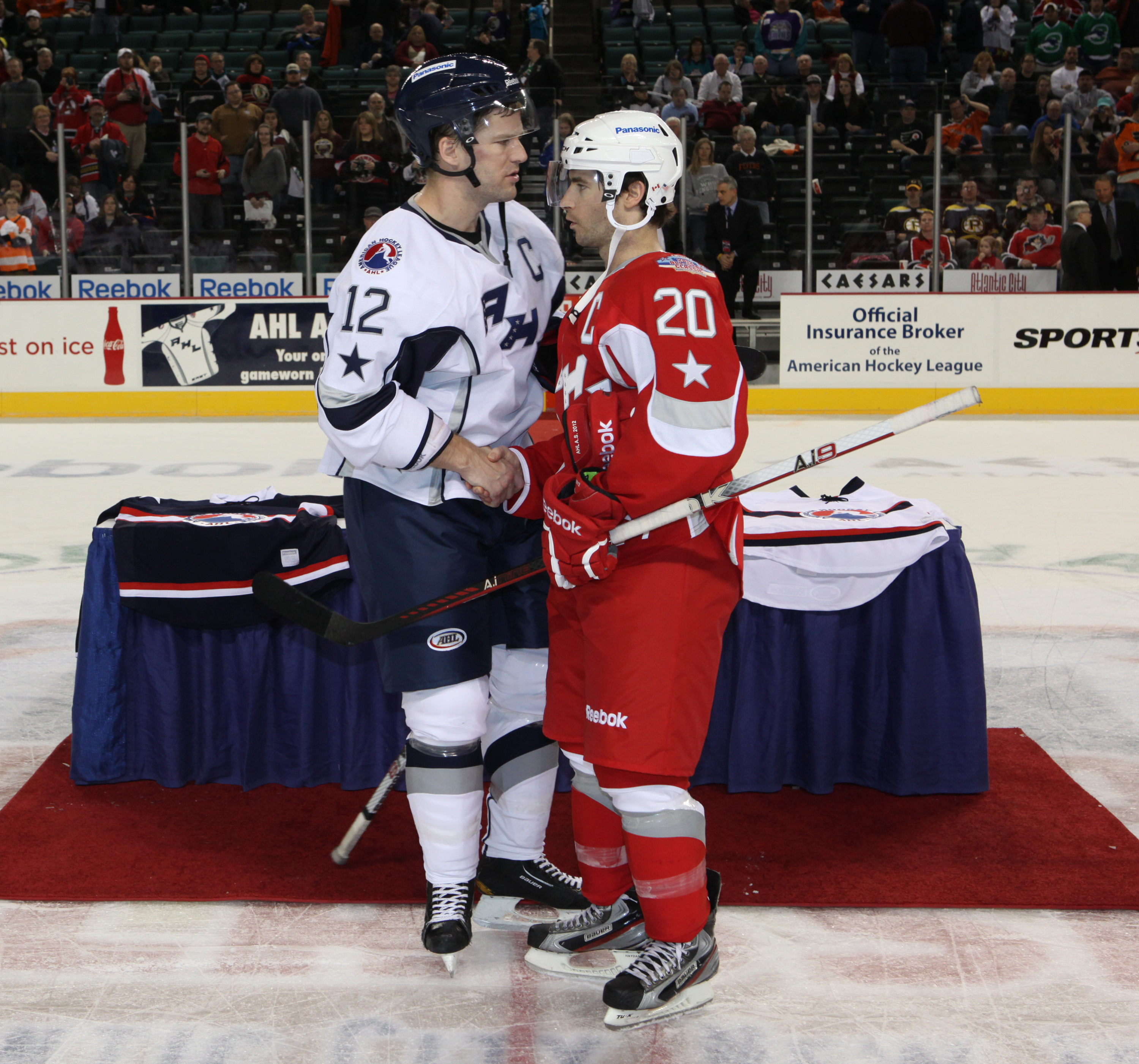 PhotoGraphics Photography/AHL American Hockey League (AHL) All-Star Game. Boardwalk Hall - Atlantic City, NJ Taken on January 30, 2012 using a Canon EOS-1D Mark IV.